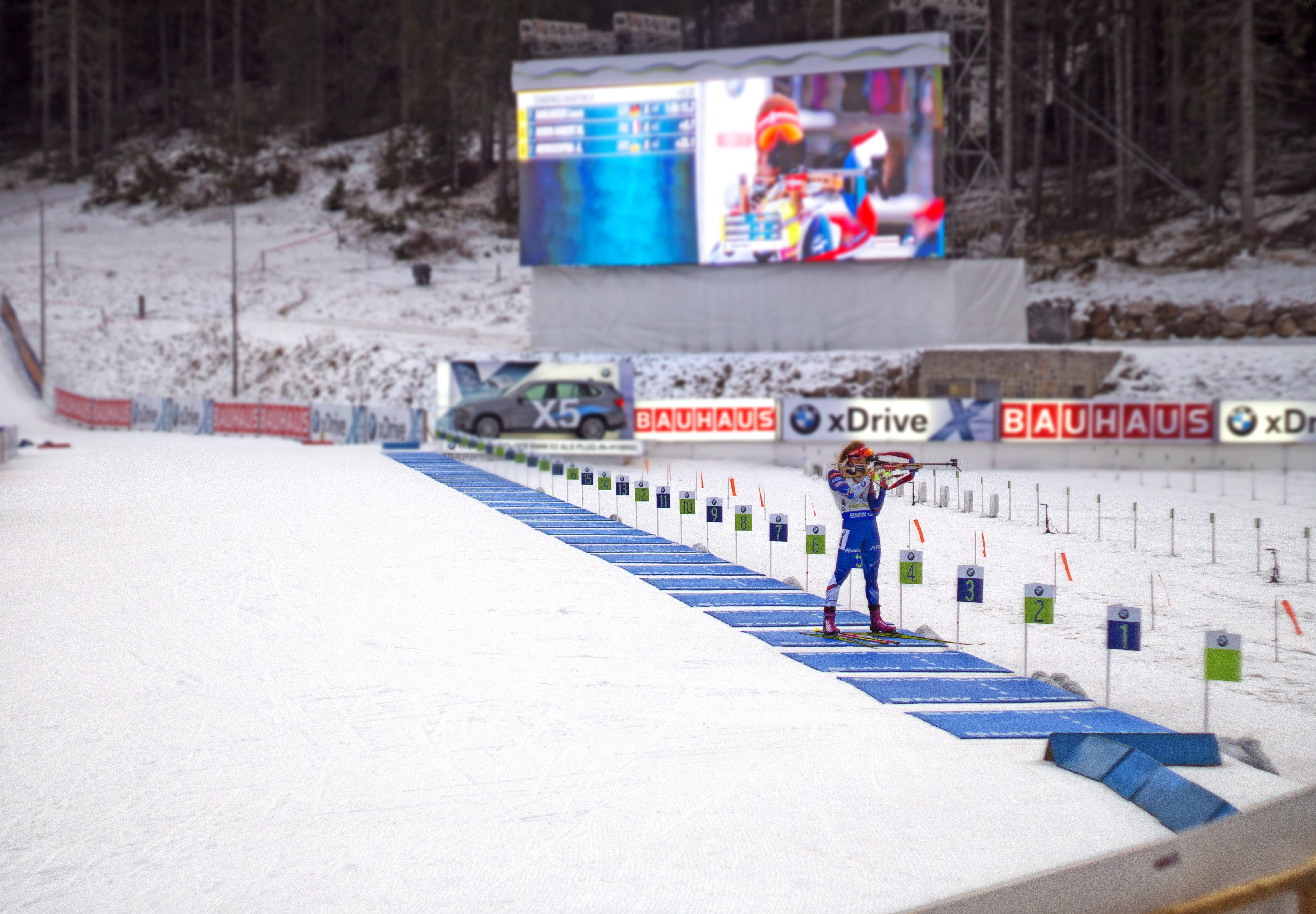 Biathlon, Women's Relay @ Pokluka